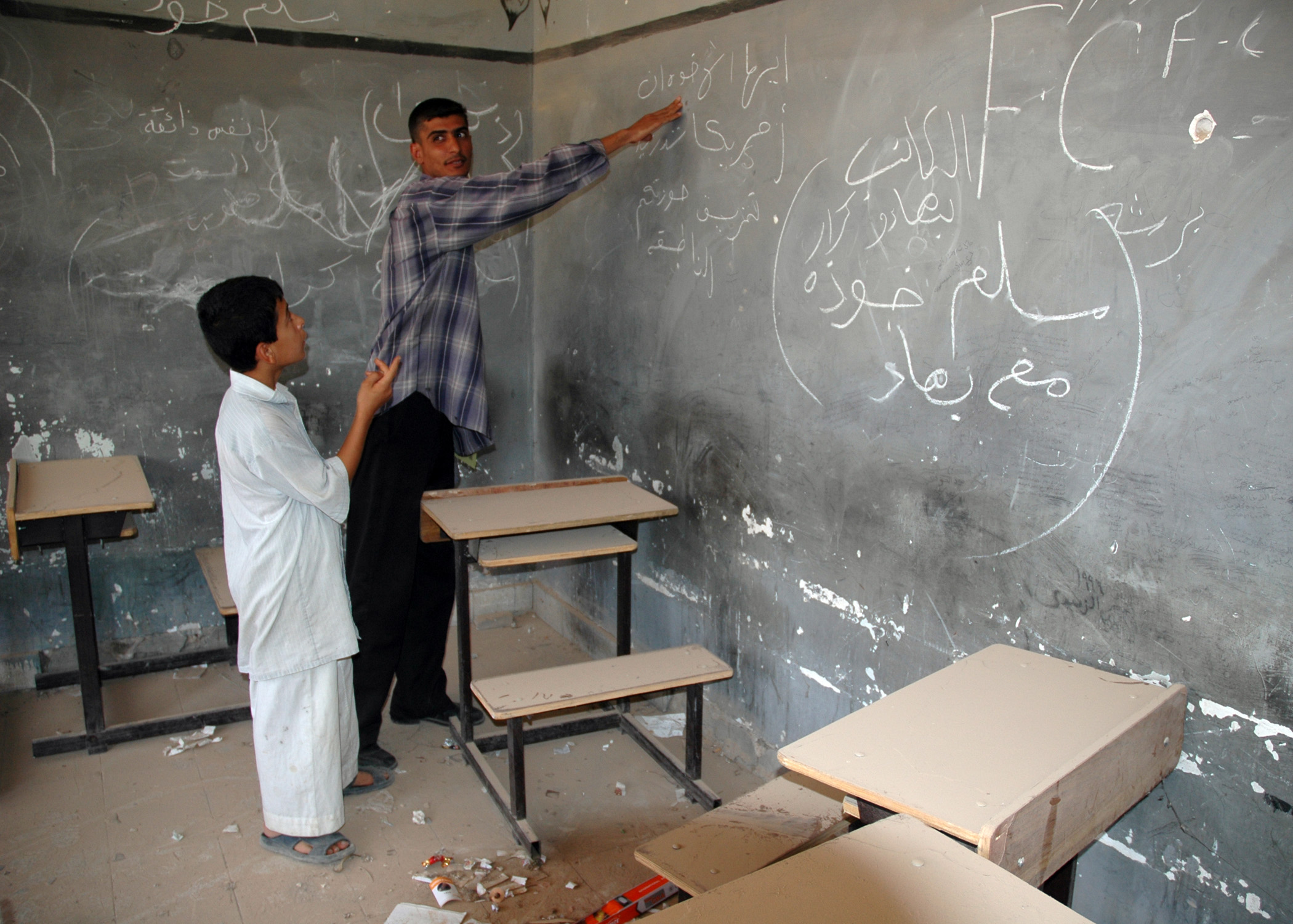 ((Released to Public) US Army Corps of Engineers (USACE) photograph by ACoe photographer Jim Gordon of the Najaf Industrial Secondary School, a USACE rehabilitation project in Najaf, central Iraq. Najaf Industrial Secondary School, managed and quality-controlled by USACE, is one of 746 that are being rehabilitated and/or constructed throughout Iraq. An Iraqi national is translating text on the blackboard of this Najaf classroom.